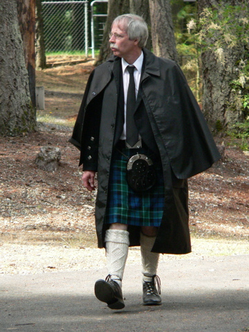 Dance piper Colin Gemmell is shown wearing an Inverness rain cape at the 2007 Tacoma Highland Games. This garment is considered the best such rain attire for wear with the kilt.